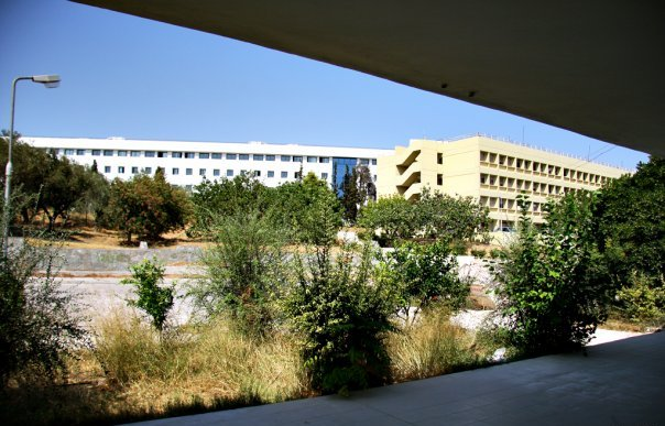 aspete.gr